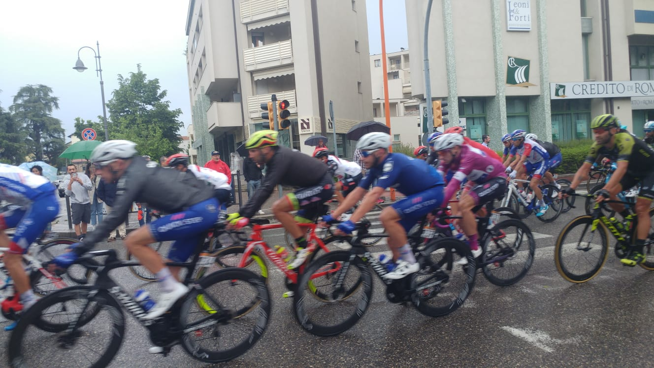 Giro Peloton in Cesena (2018)